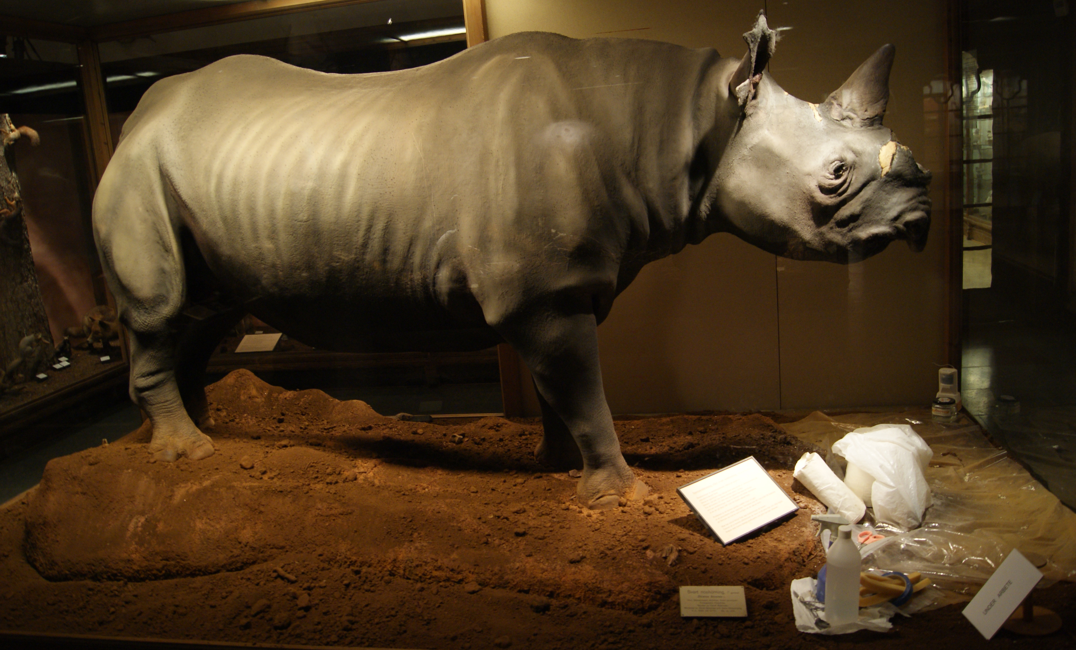 The horn of the Rhinoceros was stolen on July 23, 2011 from the showcase when it was on display in Göteborgs Naturhistoriska museum (Gothenburg Museum of Natural History).